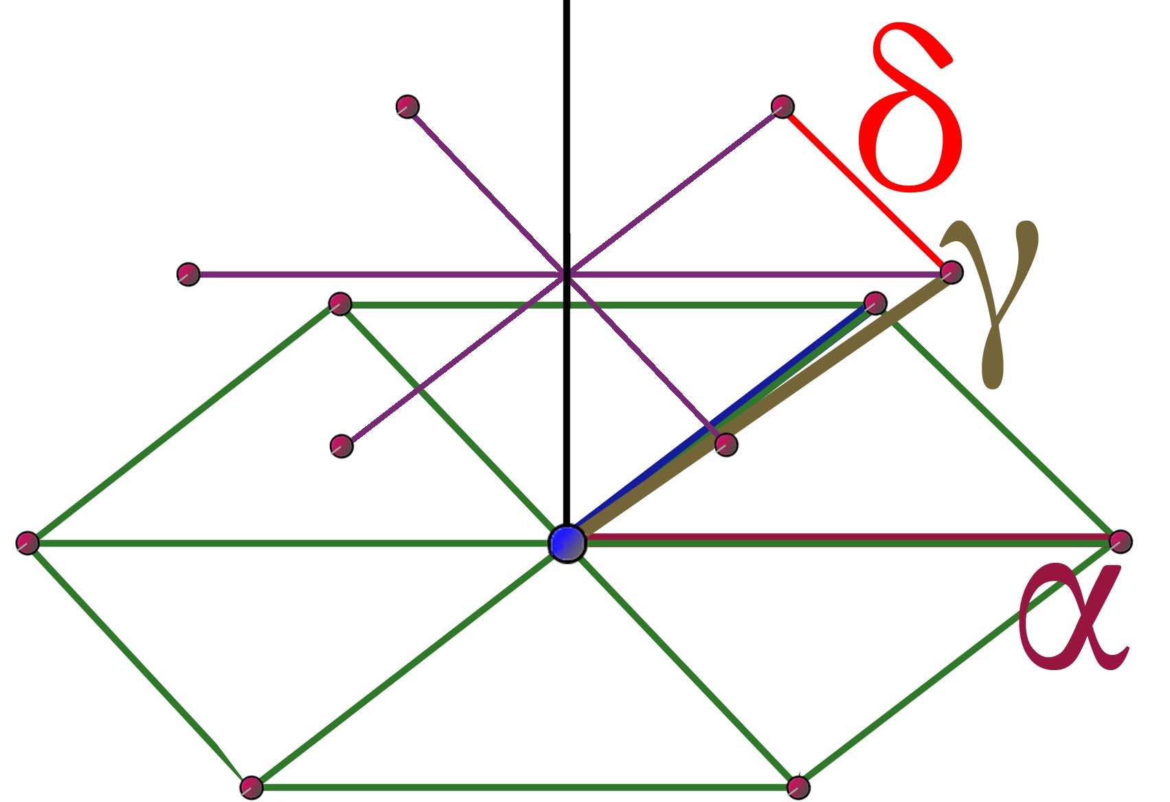 Hexagonal crystal structure (detail for mathematical proof).